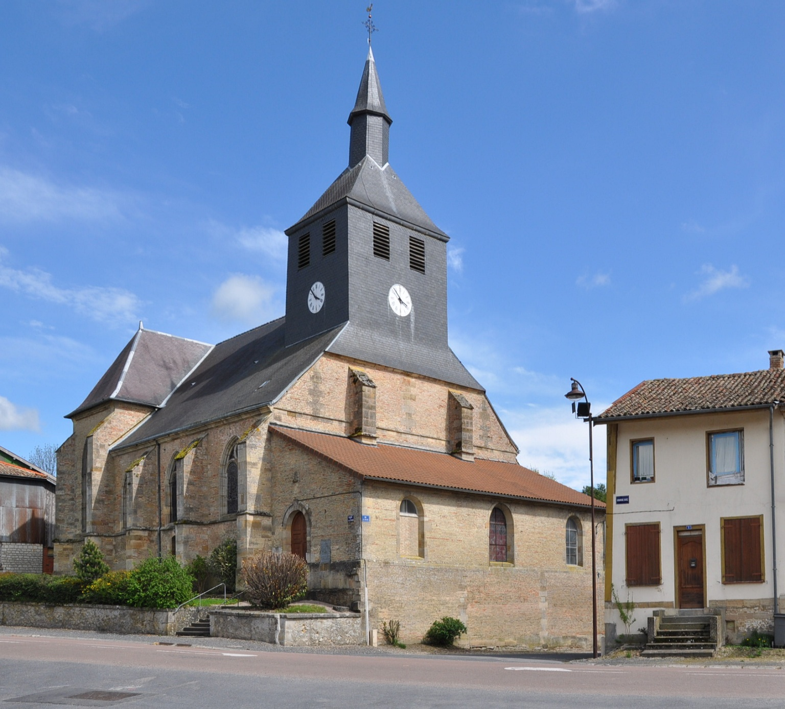 The Church of the Exaltation of the Holy Cross in Passavant-en-Argonne (Marne department, Champagne-Ardenne region, France).